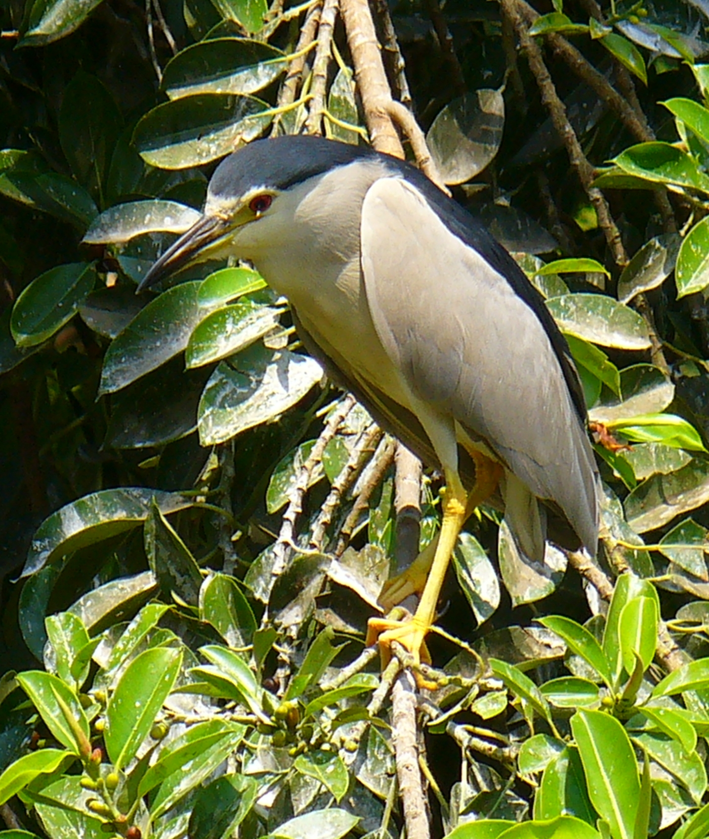 Black Crowned Night Heron, Giza Zoo, Cairo, Egypt